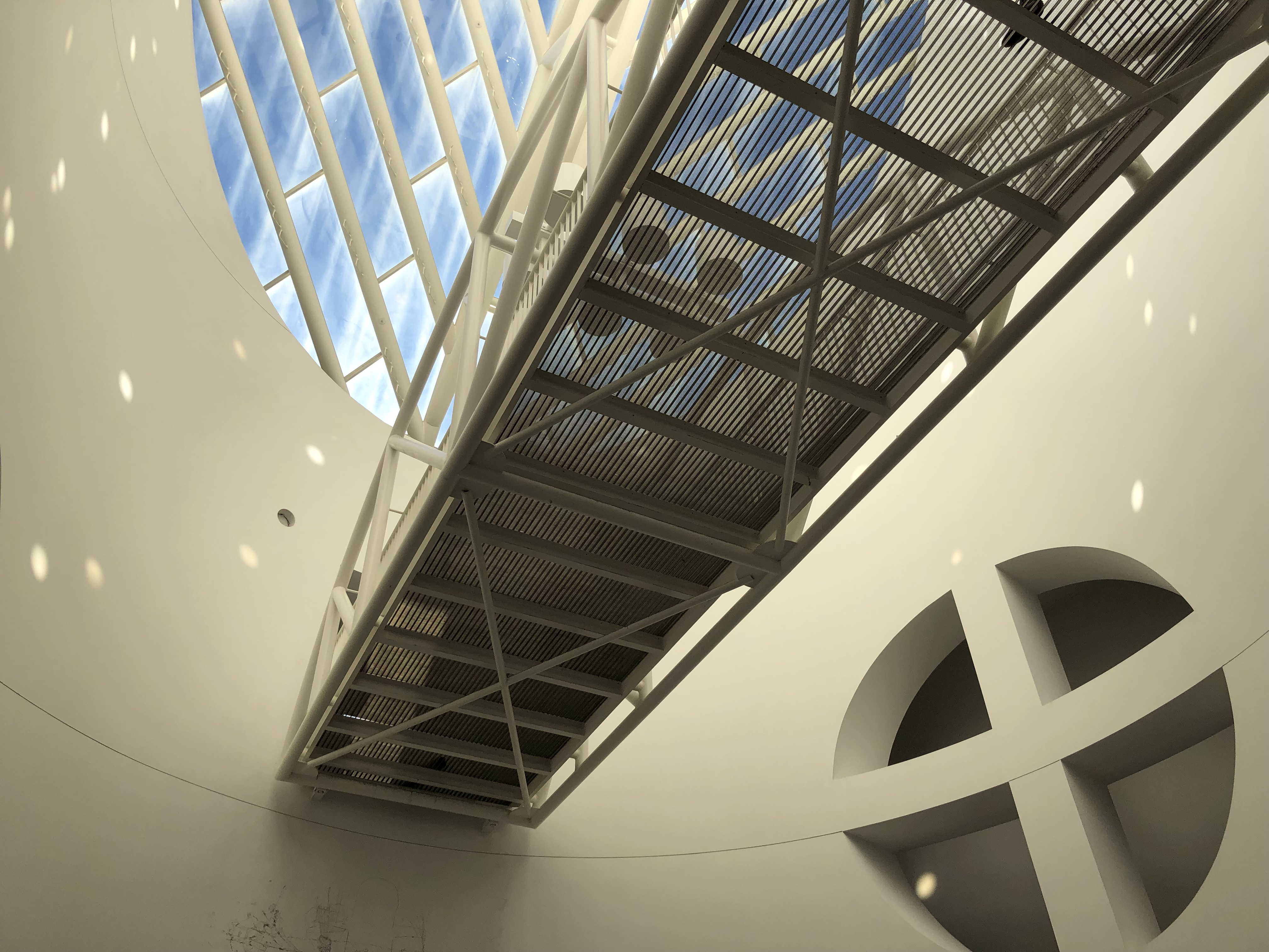 The image shows a bridge and several windows at a museum.